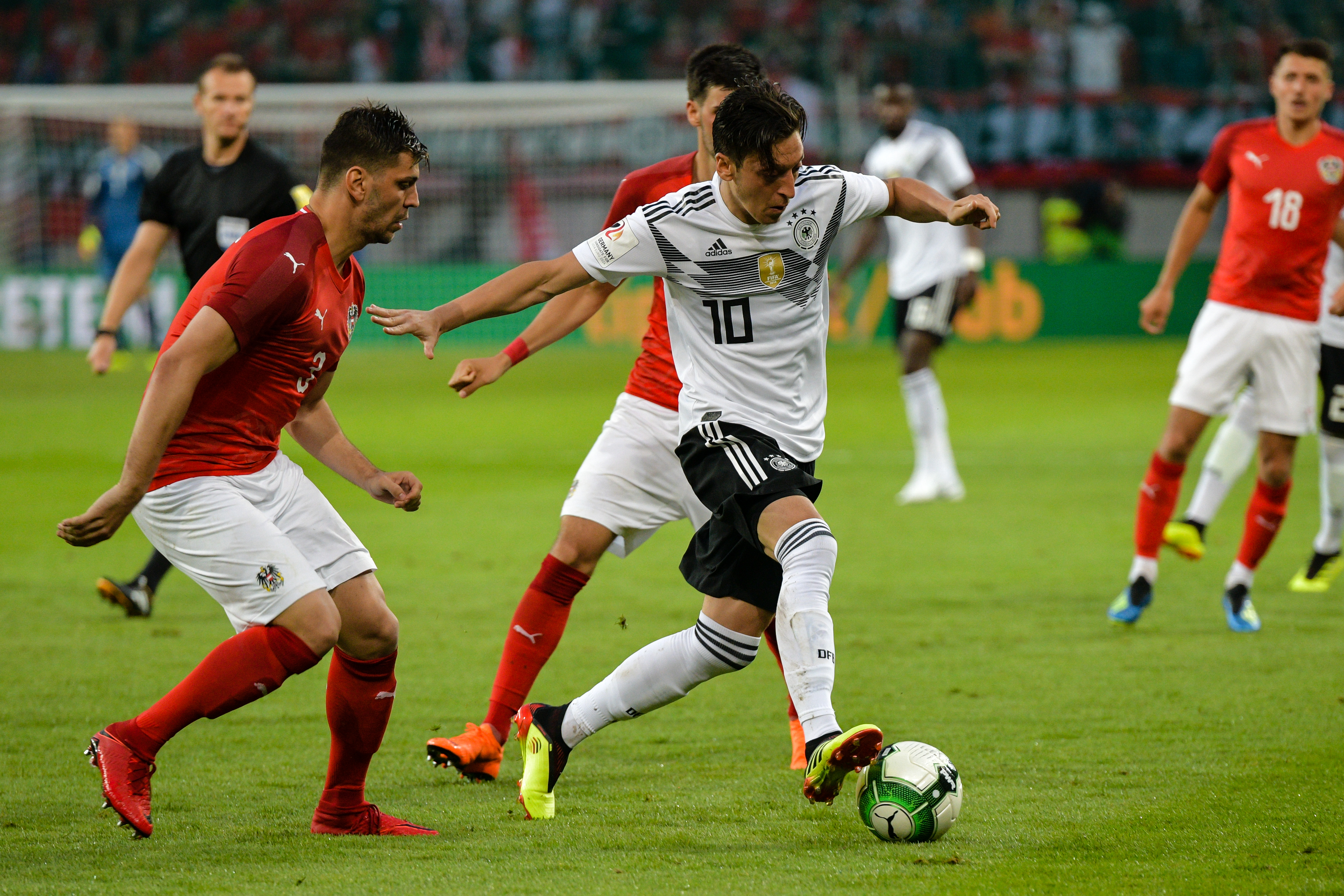 FIFA Friendly Match Austria vs. Germay 2018/06/02 in Klagenfurt/Woerthersee. Picture shows Aleksandar Dragovic (AUT), Florian Grillitsch (AUT), Mesut Özil (GER), Alessandro Schöpf (AUT)